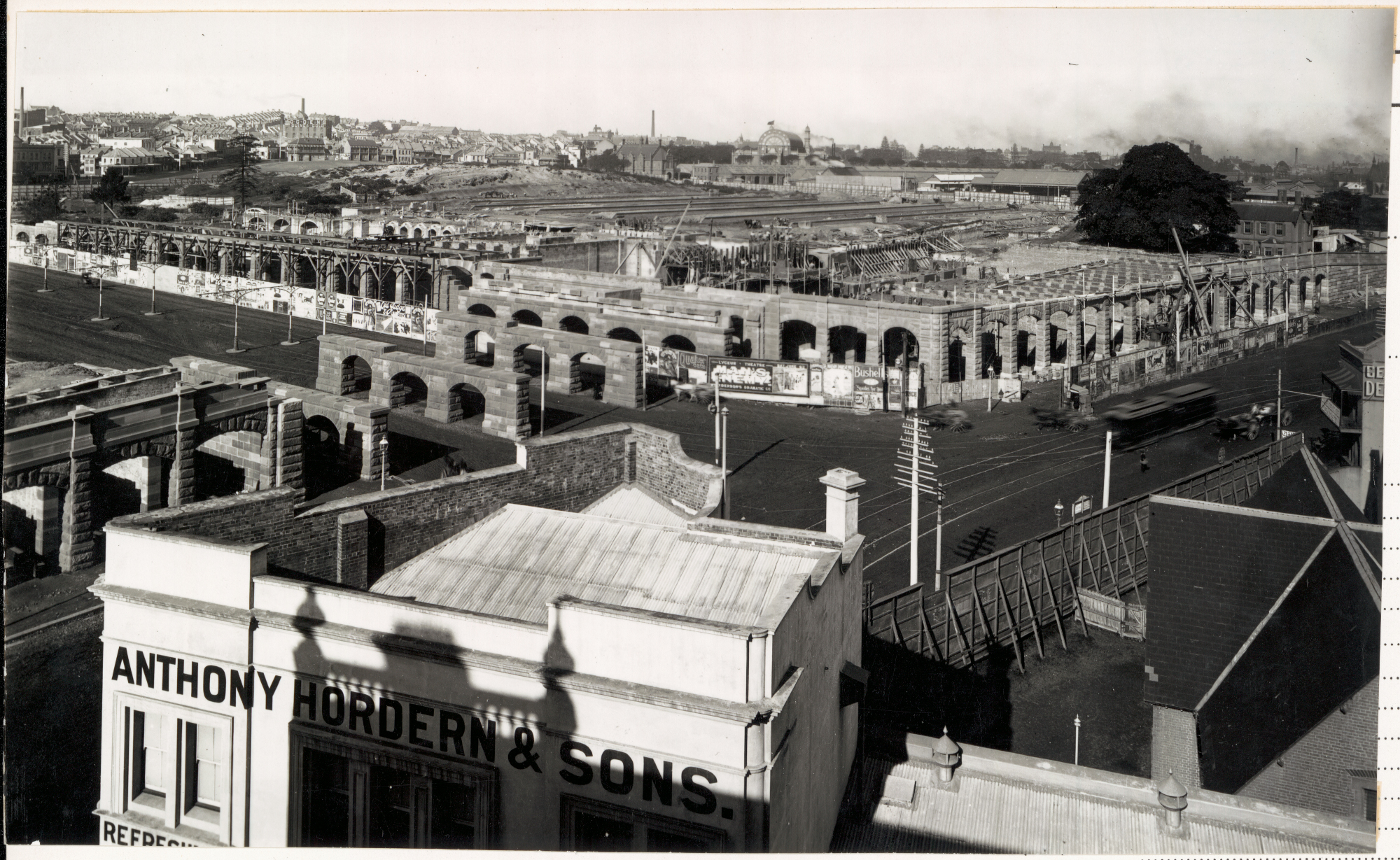 Title: Sydney Station construction Dated: 05/06/1903 Digital ID: Rights: No known copyright restrictions We'd love to if you use our photos/documents. Many other photos in our collection are available to view and browse on our website using